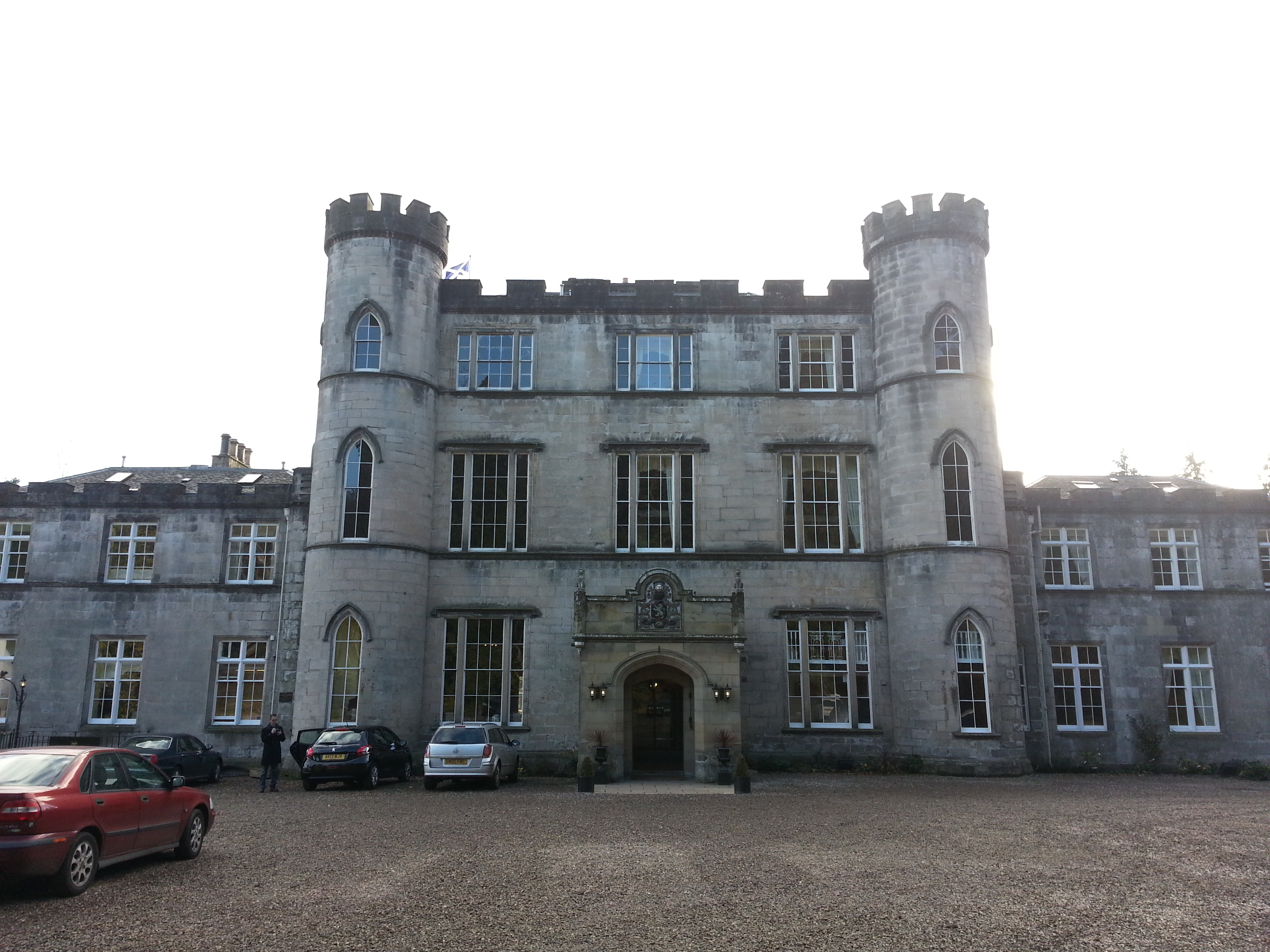 Melville Castle, is a three-story Gothic castellated mansion, close to Edinburgh, Scotland.